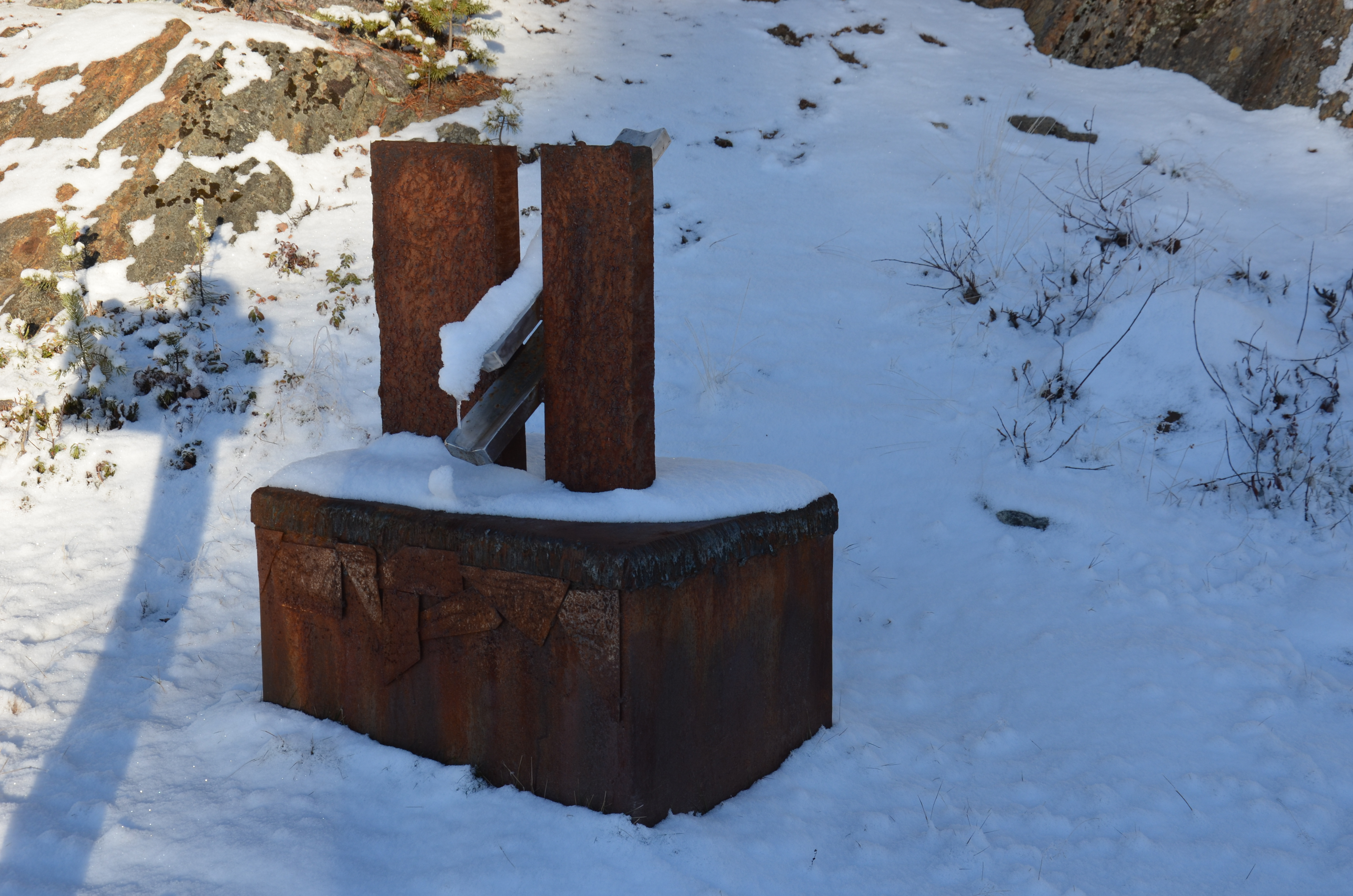 Per Erik Juusos Pärlälven i Jokkmokk